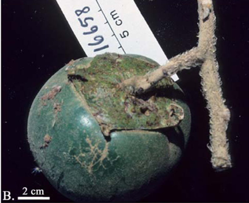 Mature fruit showing powdery pubescence and expanded calyx tube